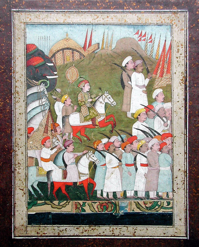 Probably Ahmad Khan Bangash, an underling of Ahmad Shah Abdali (who invaded India several times) and eventually Nawab of Farrukhabad. Gouache and gold on card. Awadh (Oudh) circa late 18th century (image 14 by 10cm; leaf 30 by 24.5cm). The painting has a pasted strip of patterned running horizontally below the lower group, indicating it possibly being an unfinished work with this yet to be overpainted